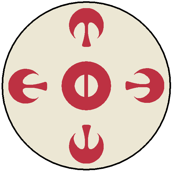 Shield pattern of Octavani (Legio VIII Augusta) in the early 5th century. Quelle: Notitia Dignitatum Occ V.